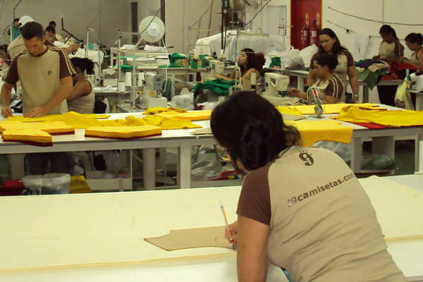 i9 Camisetas Company